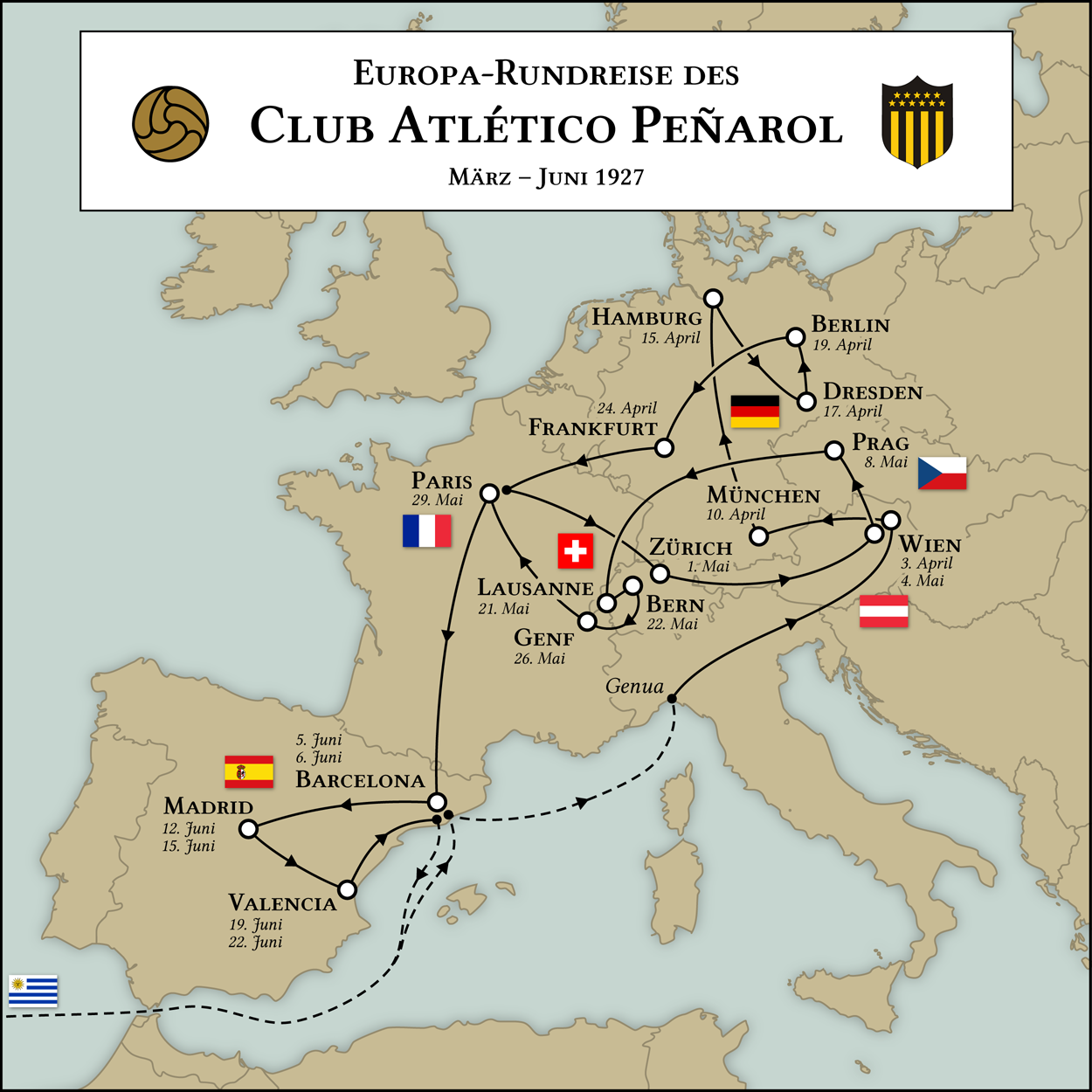 European trip of Club Atlético Peñarol 1927